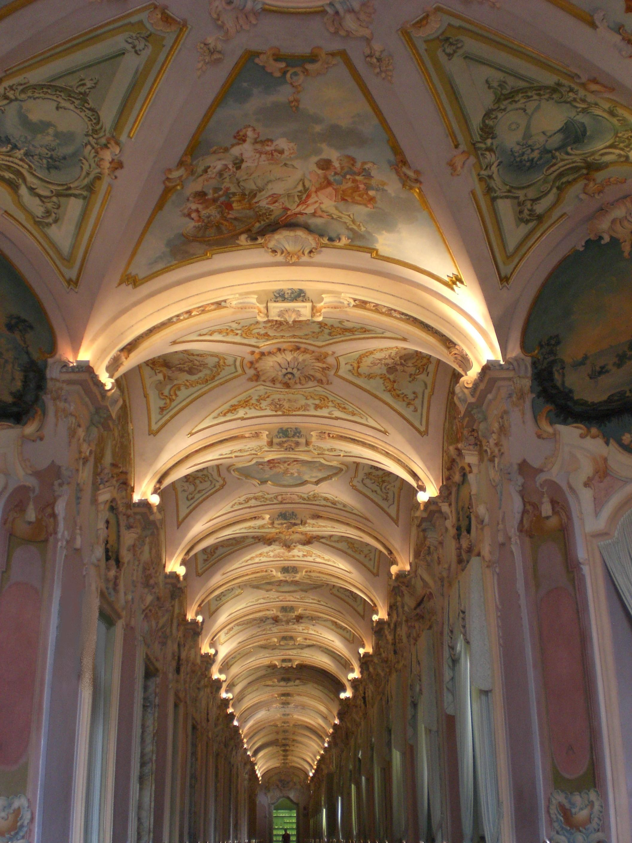 Jesi, Pianetti Palace, Gallery of Stuccos